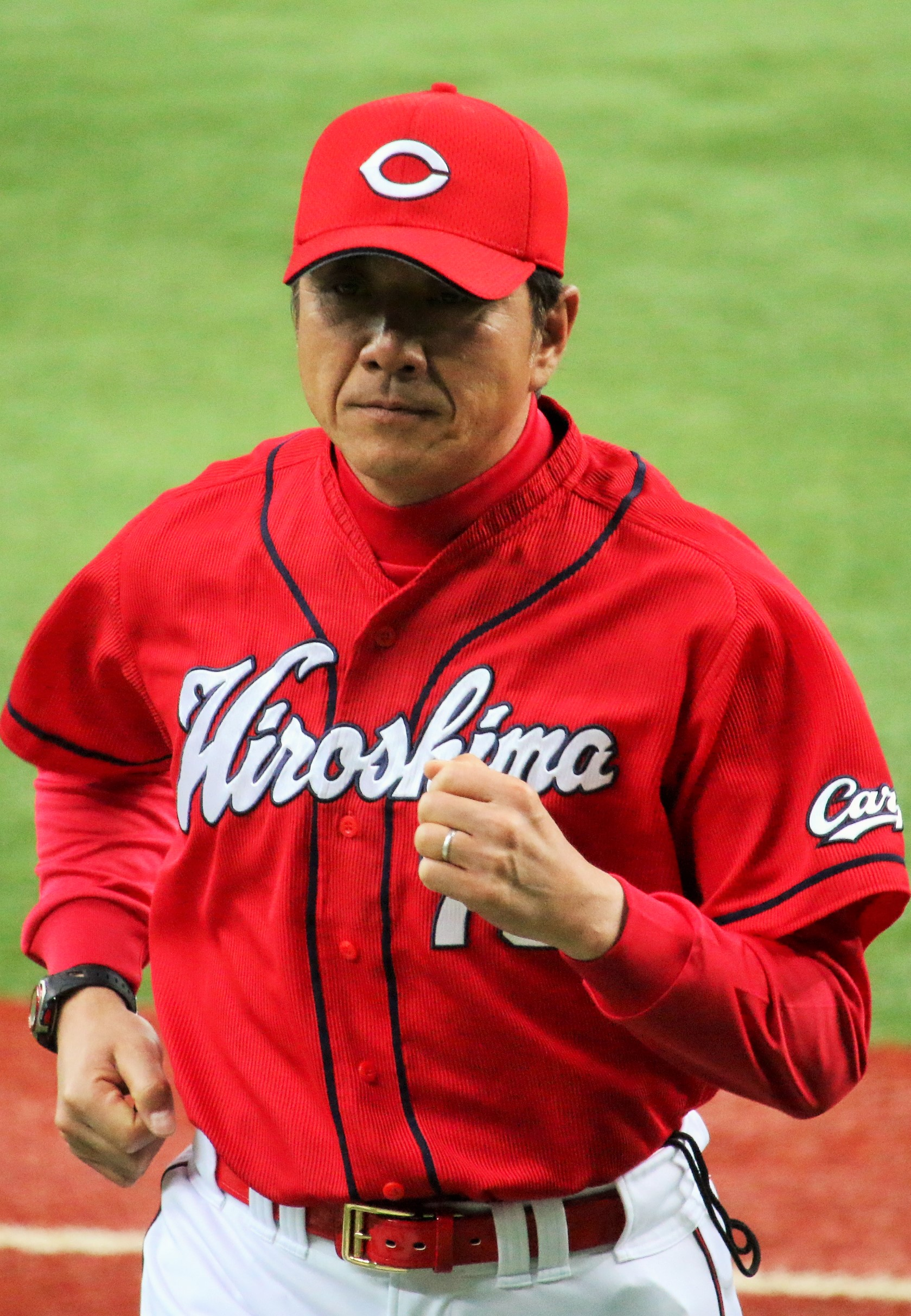 Tatsumi Une, coach of the Hiroshima Toyo Carp, at Osaka Dome.